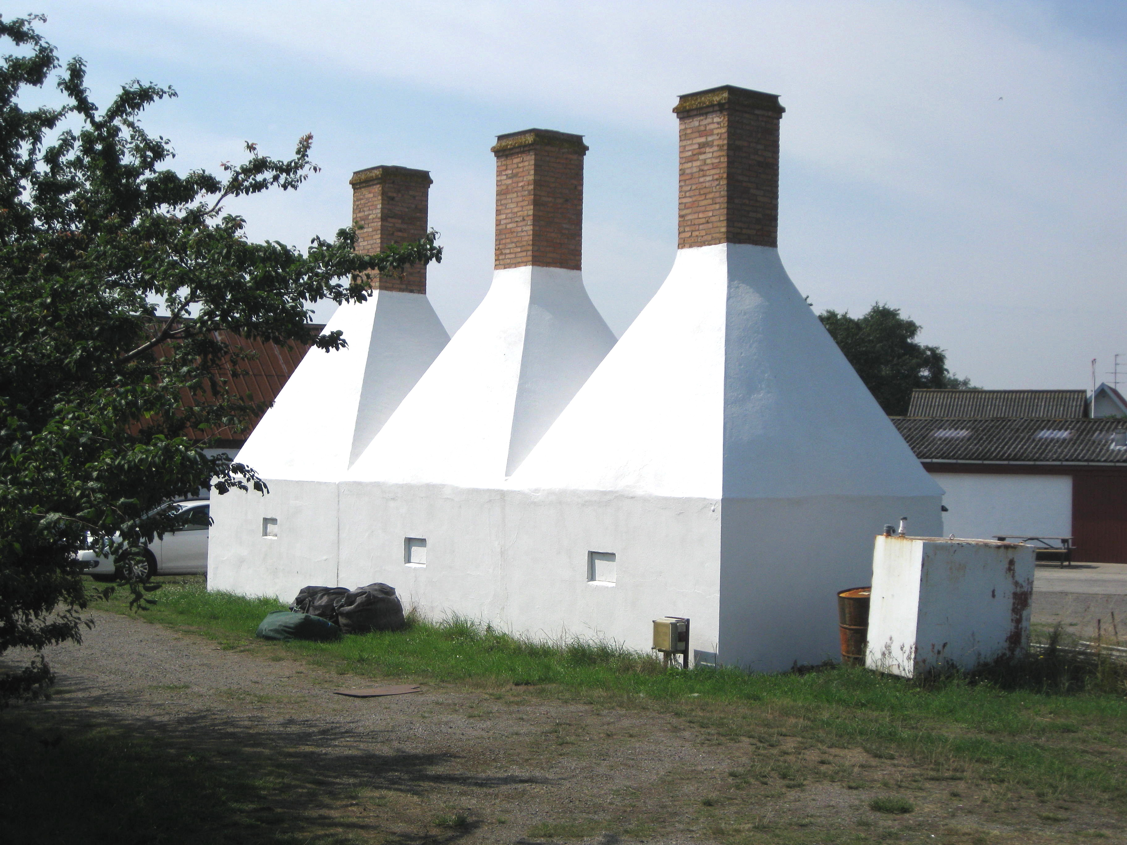 Smokehouse of the fishing village "Snogebæk", located on the island Bornholm in east Denmark.